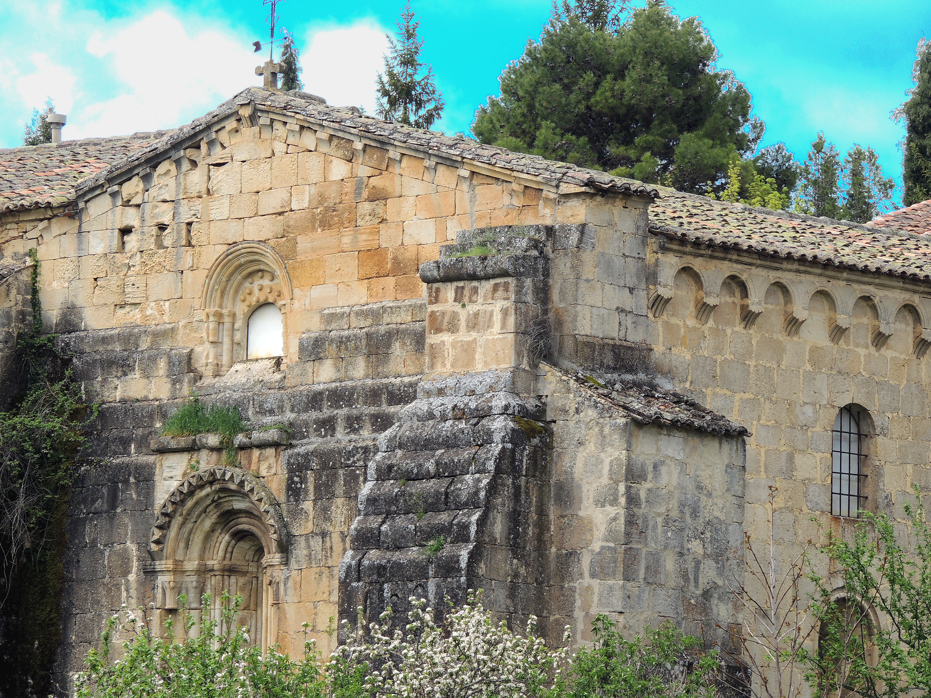 Santa María monastery, BUENAFUENTE DEL SISTAL (Guadalajara) Castilla-La Mancha, Spain. Romanesque- Cistercian s XII.